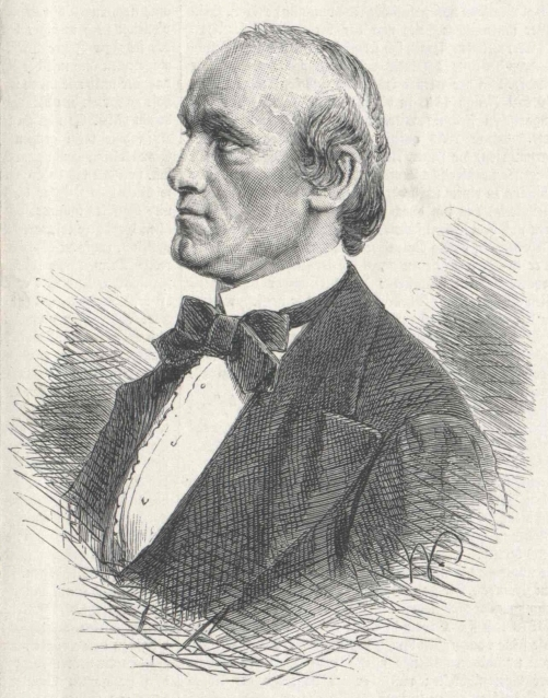 Friedrich Kiel (1821–1885), German composer and teacher.